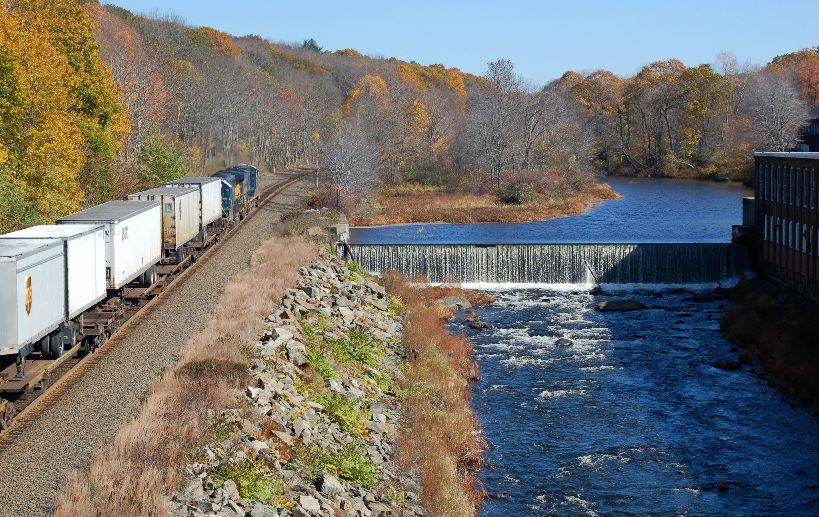 Quaboag River at Warren. Photo by Author, Richard B. Johnson